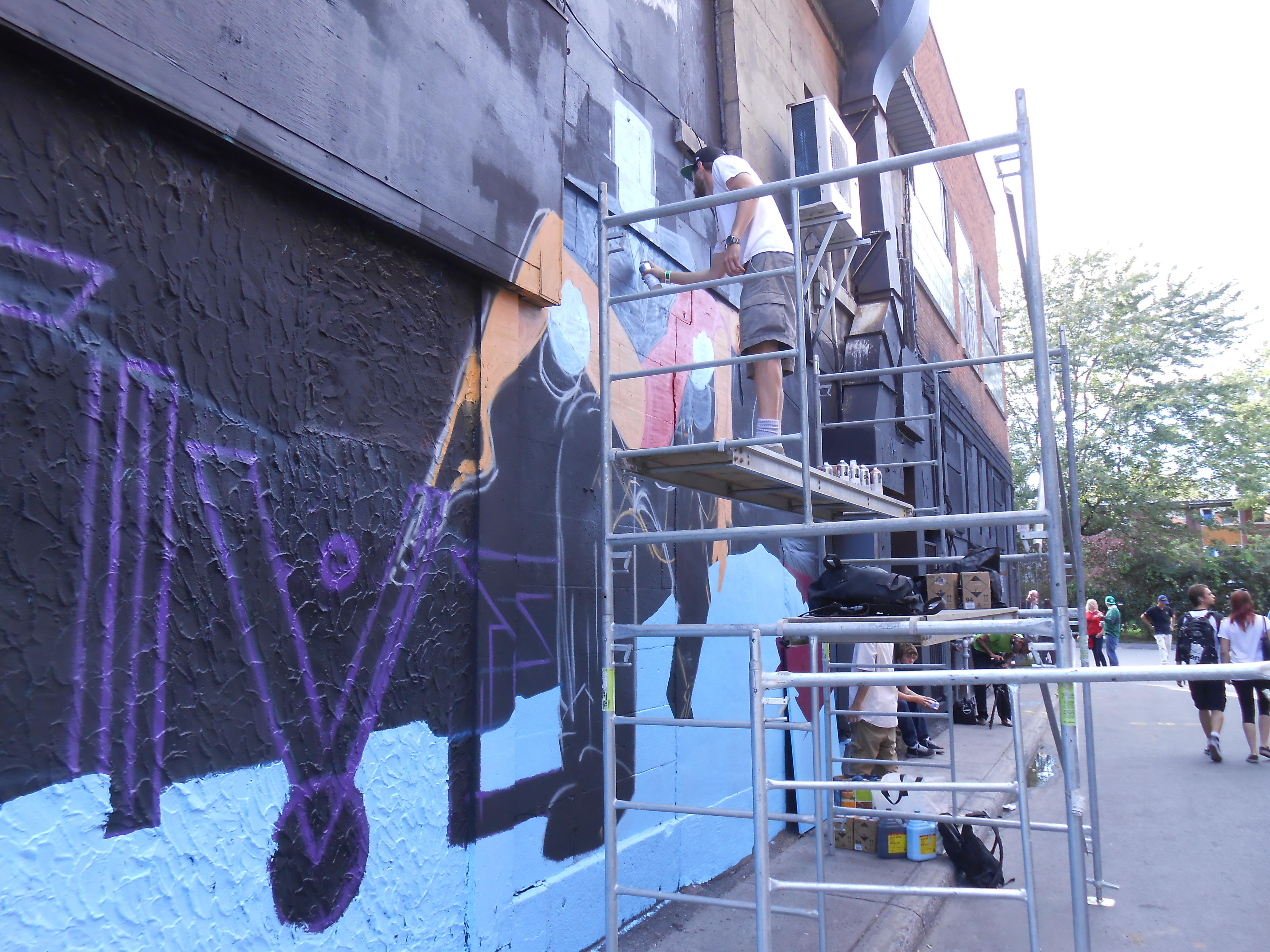 « Under Pressure is the largest and longest running event of its kind all across North America. Under Pressure is a graffiti festival which focuses on community development, artist empowerment as well as positive youth development through ownership and responsibility of a shared space. » – underpressure.ca